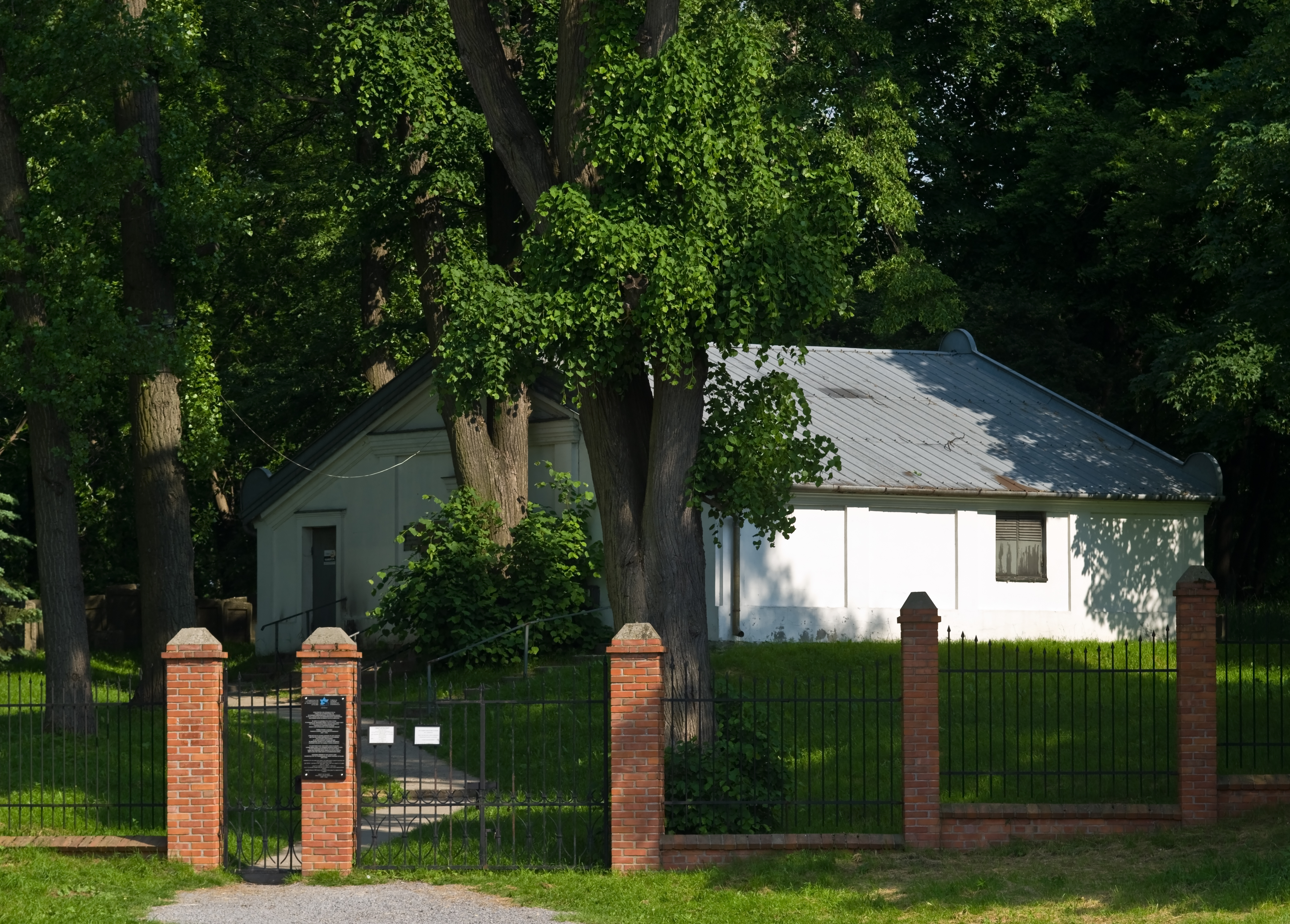 Ohel of Elimelech in Leżajsk